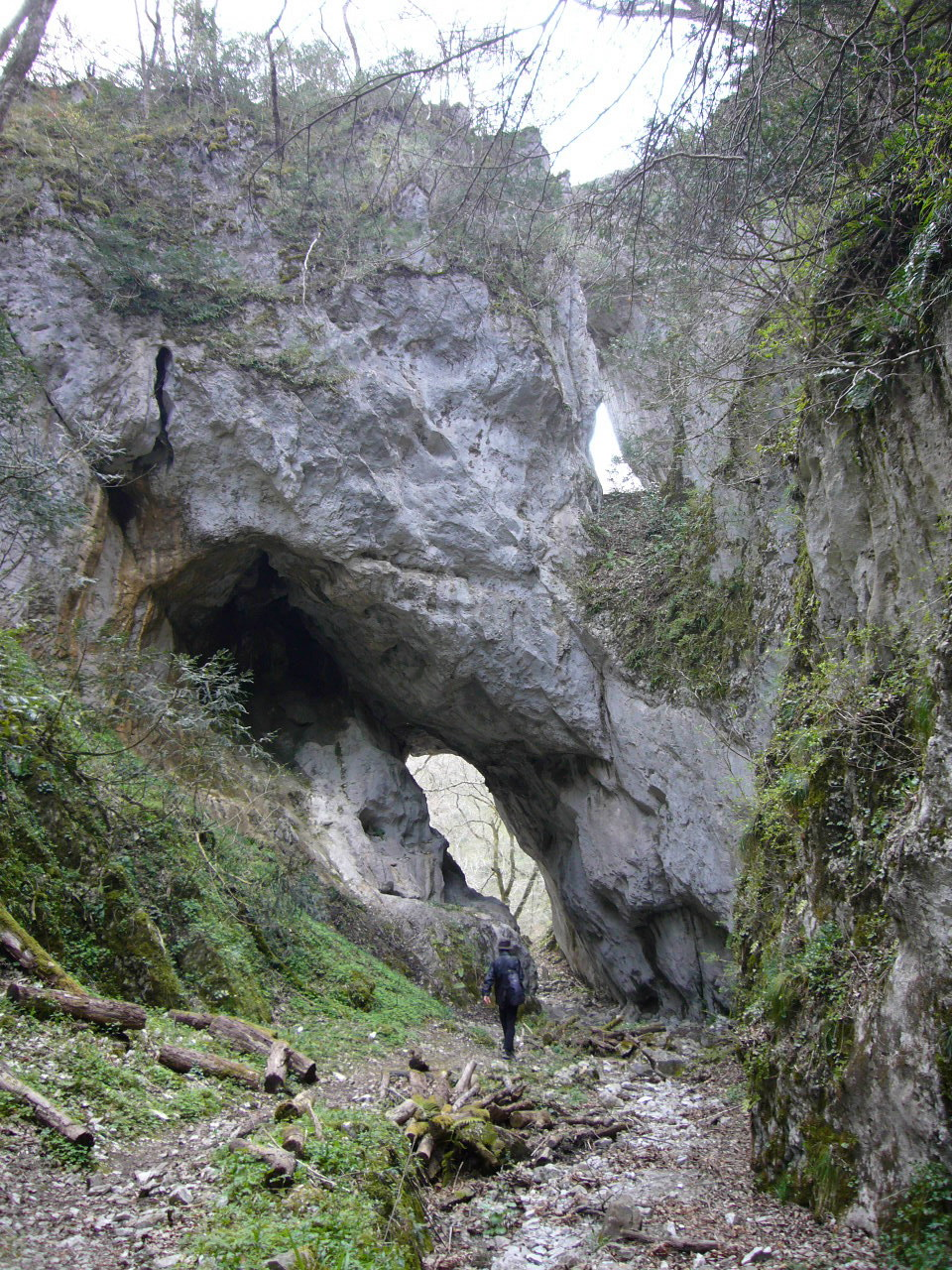 natural bridge in Taishaku gorge